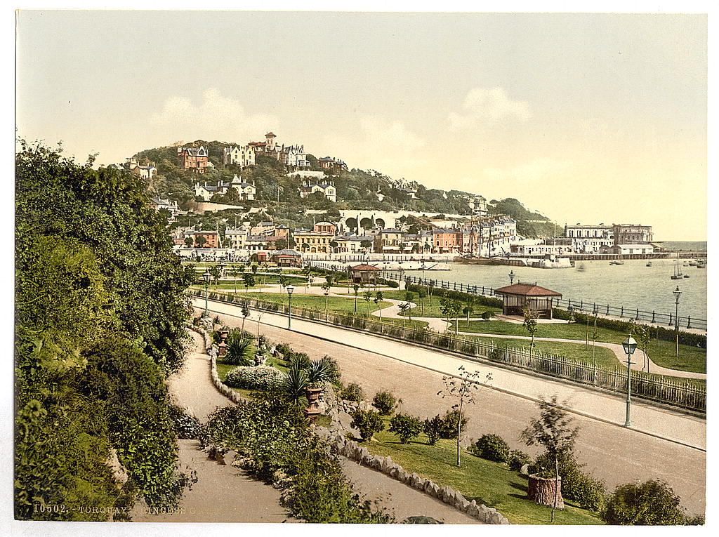 [Princess Gardens, Torquay, England] [between ca. 1890 and ca. 1900]. 1 photomechanical print : photochrom, color. Notes: Title from the Detroit Publishing Co., Catalogue J--foreign section, Detroit, Mich. : Detroit Publishing Company, 1905. Print no. "10502". Forms part of: Views of the British Isles, in the Photochrom print collection. Subjects: England--Torquay. Format: Photochrom prints--Color--1890-1900. Repository: Library of Congress, Prints and Photographs Division, Washington, D.C. 20540 USA, Part Of: Views of the British Isles (DLC) 2002696059 More information about the Photochrom Print Collection is available at Higher resolution image is available (Persistent URL): Call Number: LOT 13415, no. 922 [item]